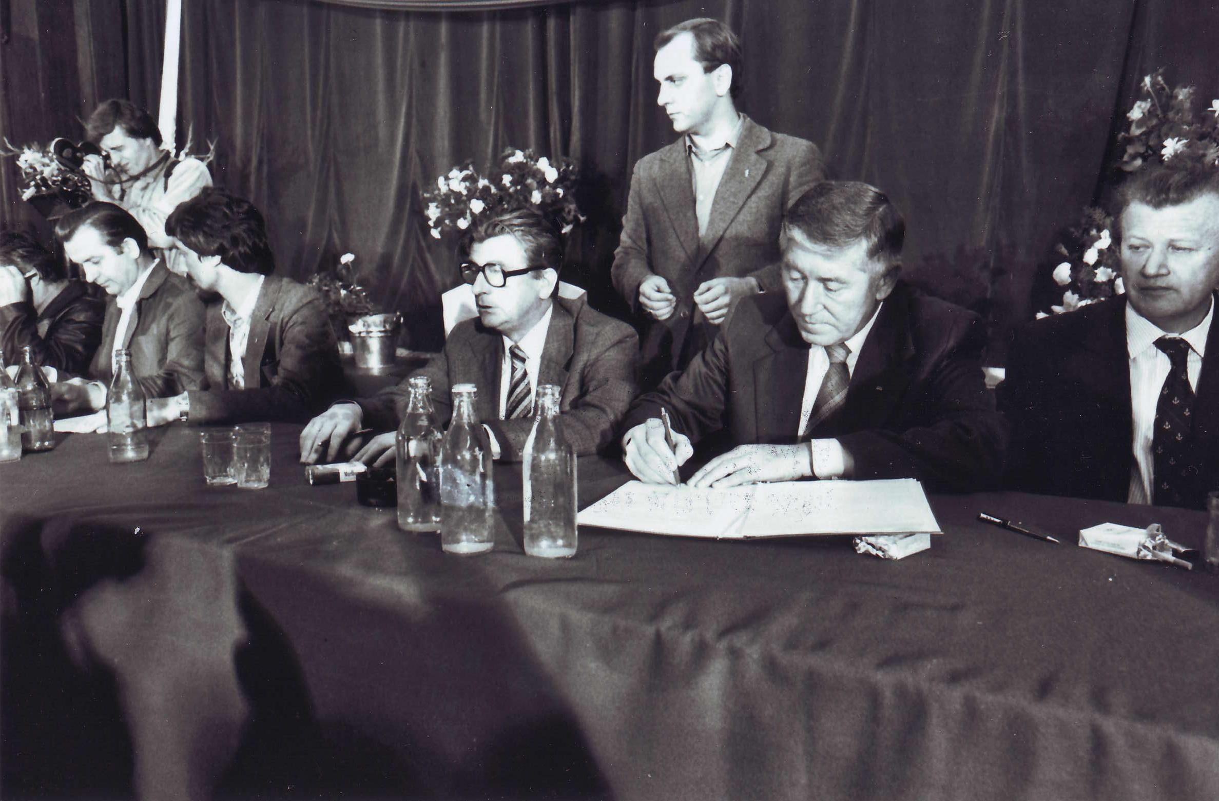 This picture documents the ratification of the August Agreements in Szczecin by the local Communist Party Secretary Janusz Brych.